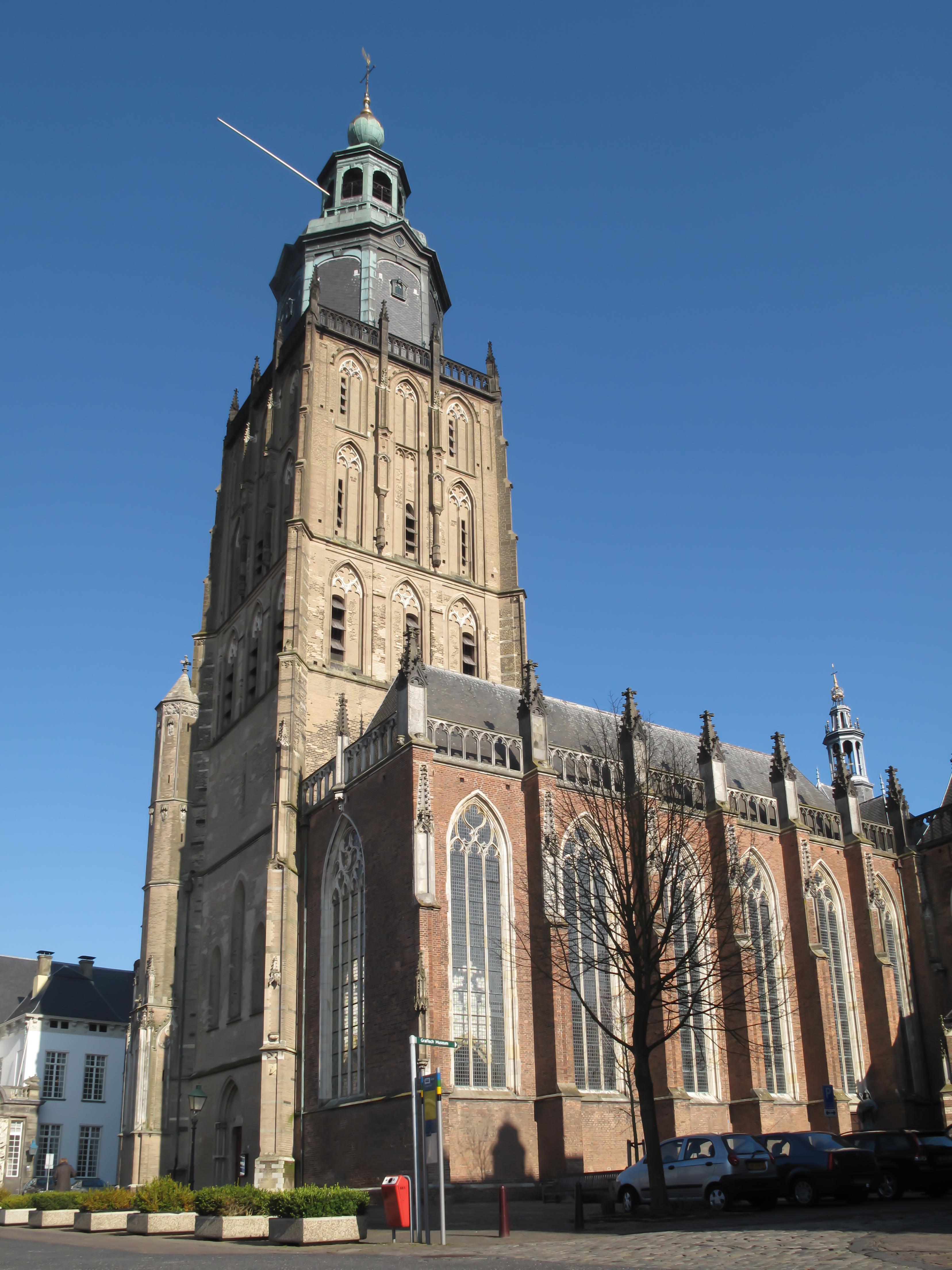 Zutphen, church: Walburgkerk